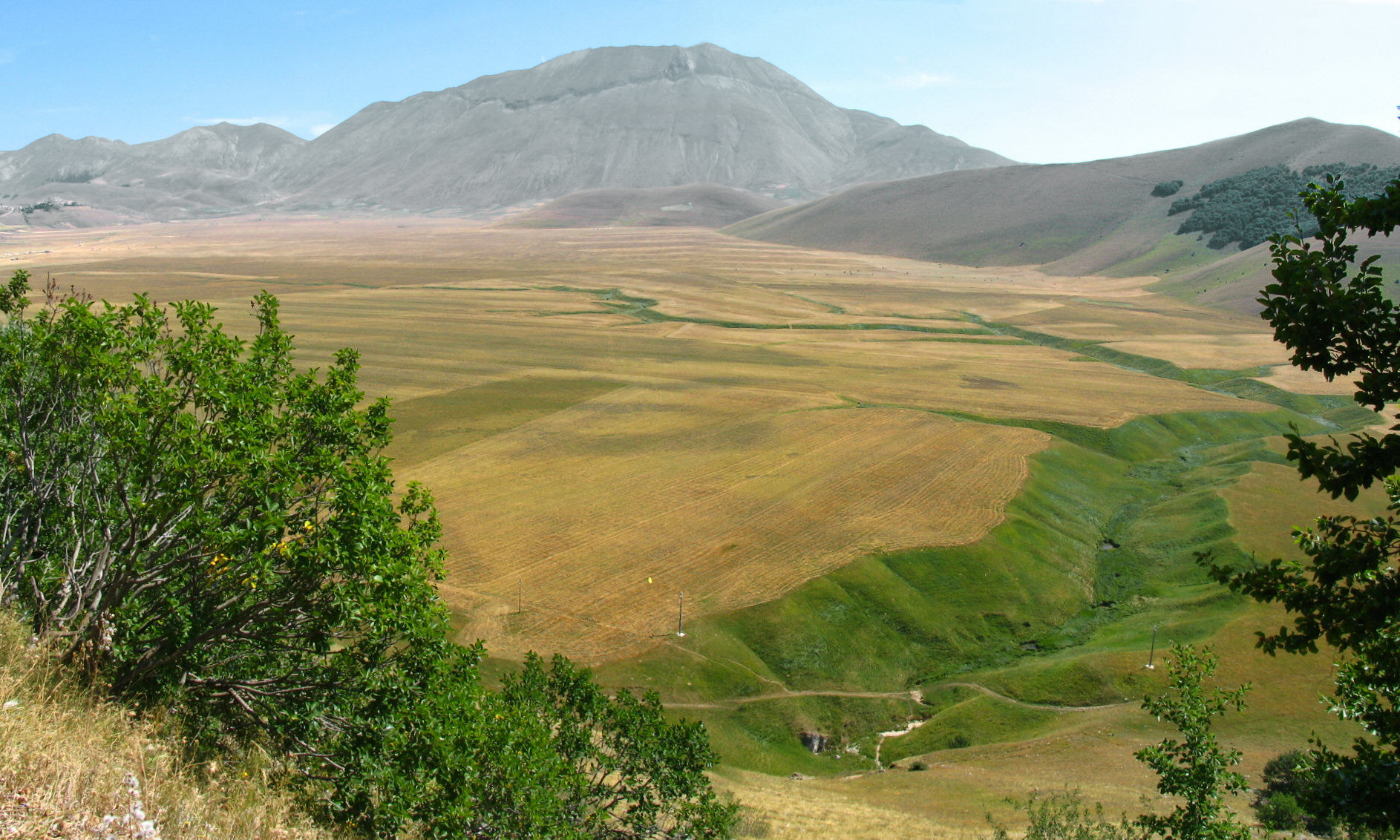 Piano Grande. Polje in 1270m, Apennine, Italy. Accumulated precipitation of the non-hot seasons is gradually drained via those furrows towards the sinkhole, seen in front.